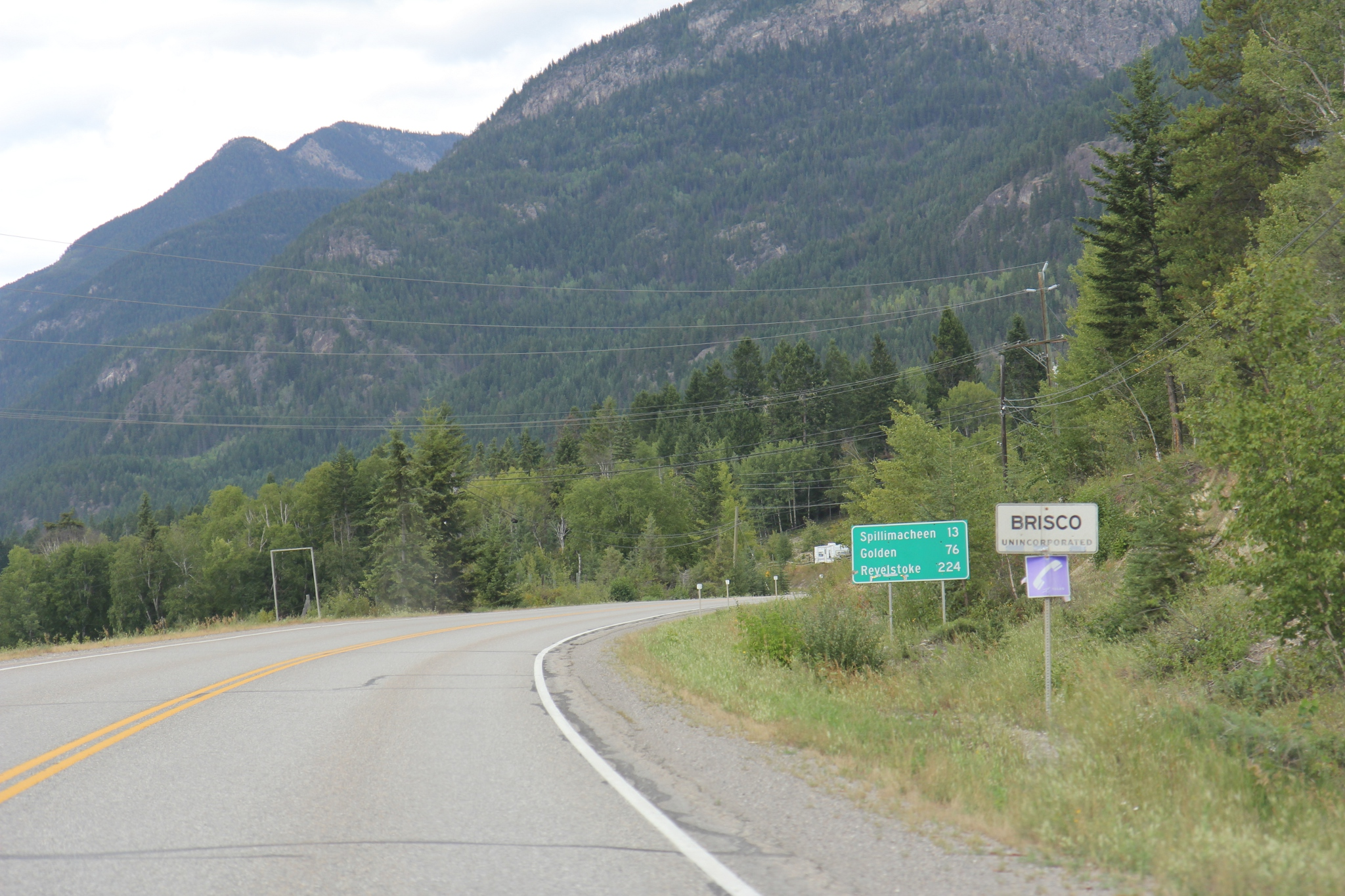 Entering Brisco, British Columbia on British Columbia Highway 95.